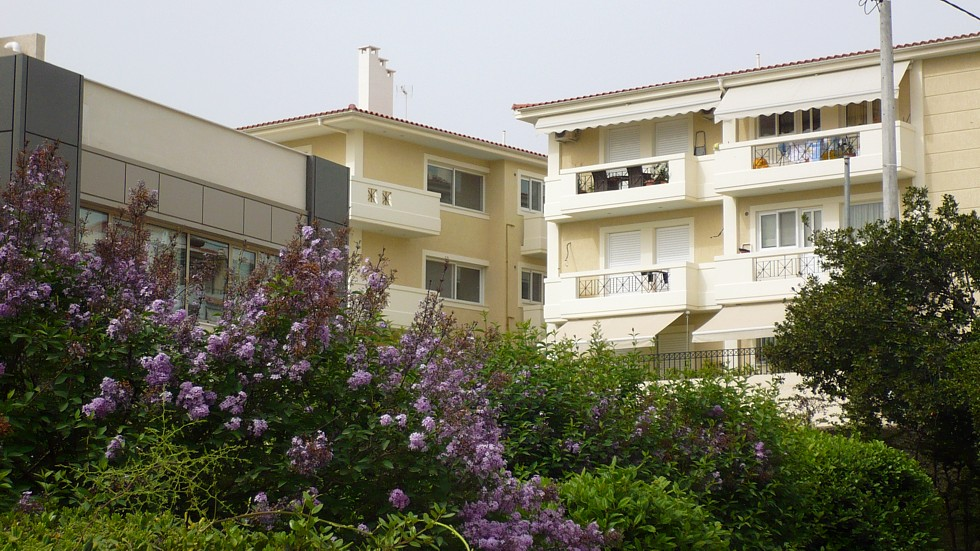 The above picture depicts maisonette blocks at Vrilissia.